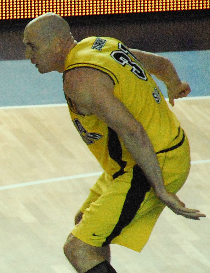 Pat Burke during Euroleague game between Assecco Prokom and Armani Jeans.